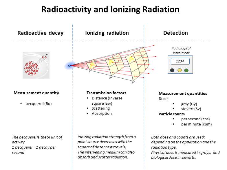 Graphic showing relationship between radioactivity and detected ionising radiation, including the transport element. Incorporates inverse square law by author borb and alpha decay svg by author Inductiveload.